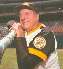 Professional baseball coach Billy Herman